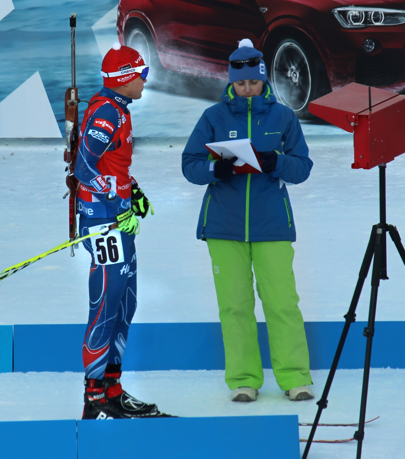 Michal Krčmář at Biathlon World Cup 2015 in Nové Město, Czech Republic – sprint men